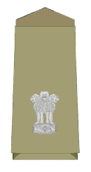 Insignia of Senior Superintendent of Police